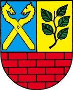 Coat of arms of Buchholz.